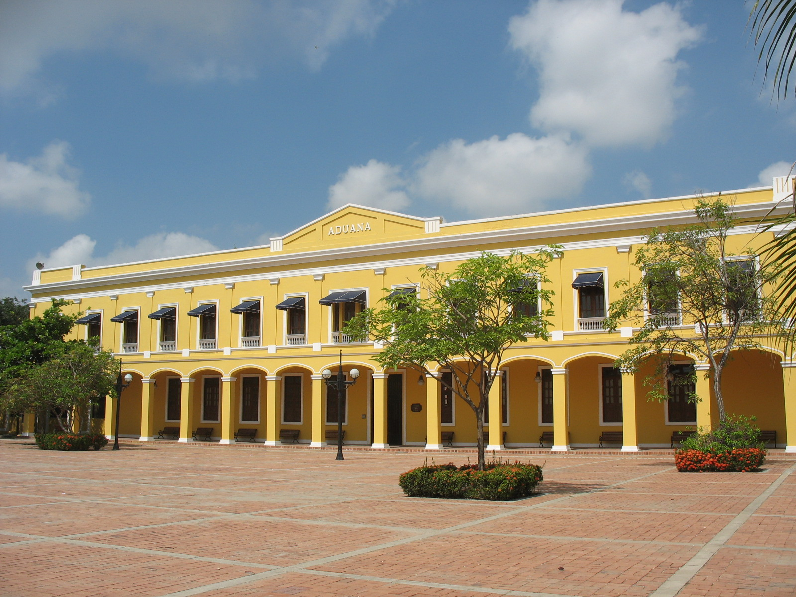 Barranquilla Old Customs House